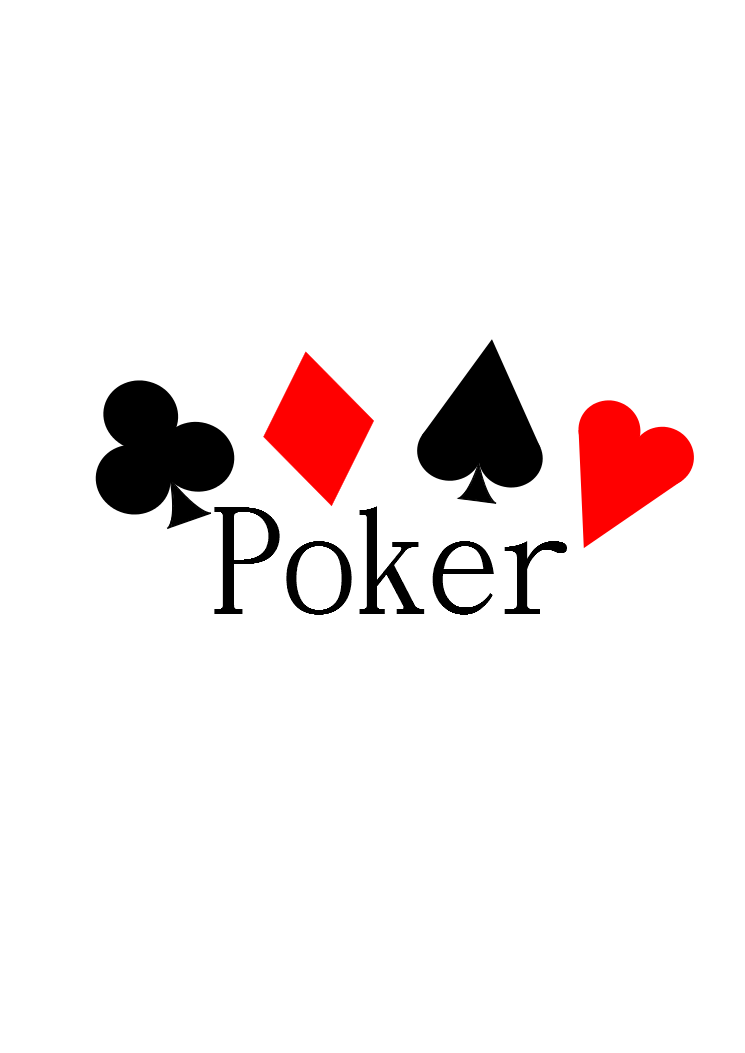 Colors of poker